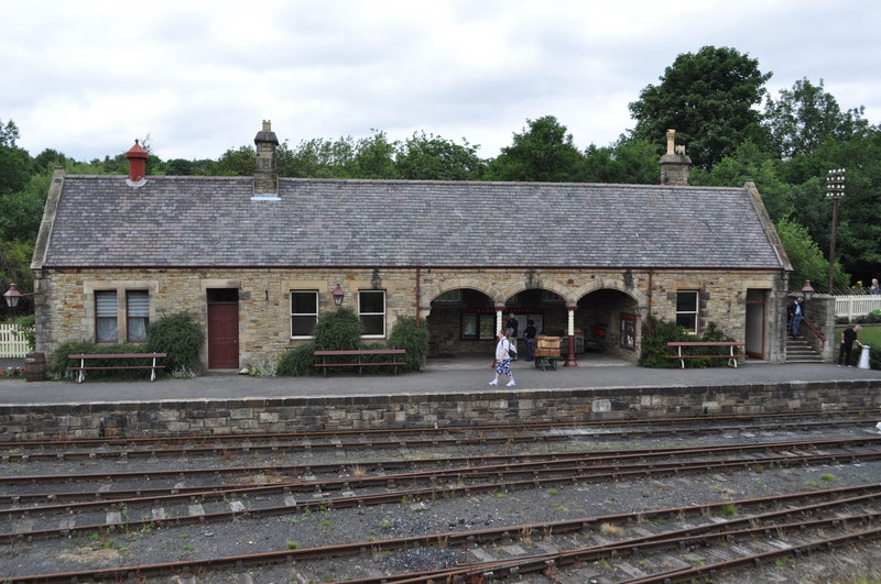 Beamish Museum, County Durham, England. This is the single platform station on the Town railway, seen from the south, looking across the goods yard tracks.